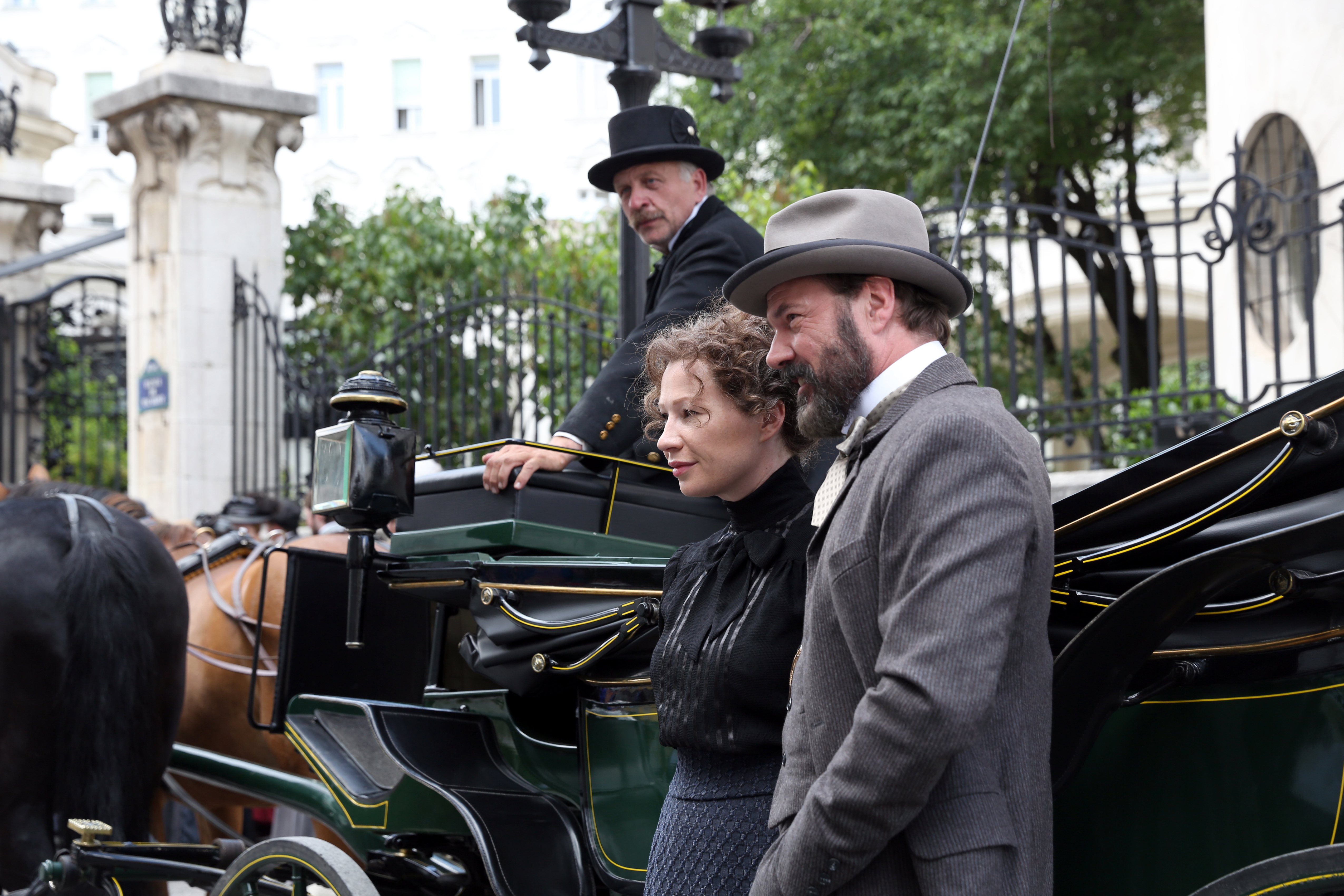 Birgit Minichmayr as Bertha von Suttner and Sebastian Koch as Alfred Nobel on the filming location of the movie Madame Nobel in and around the Embassy of France in Vienna (Vienna, Austria).